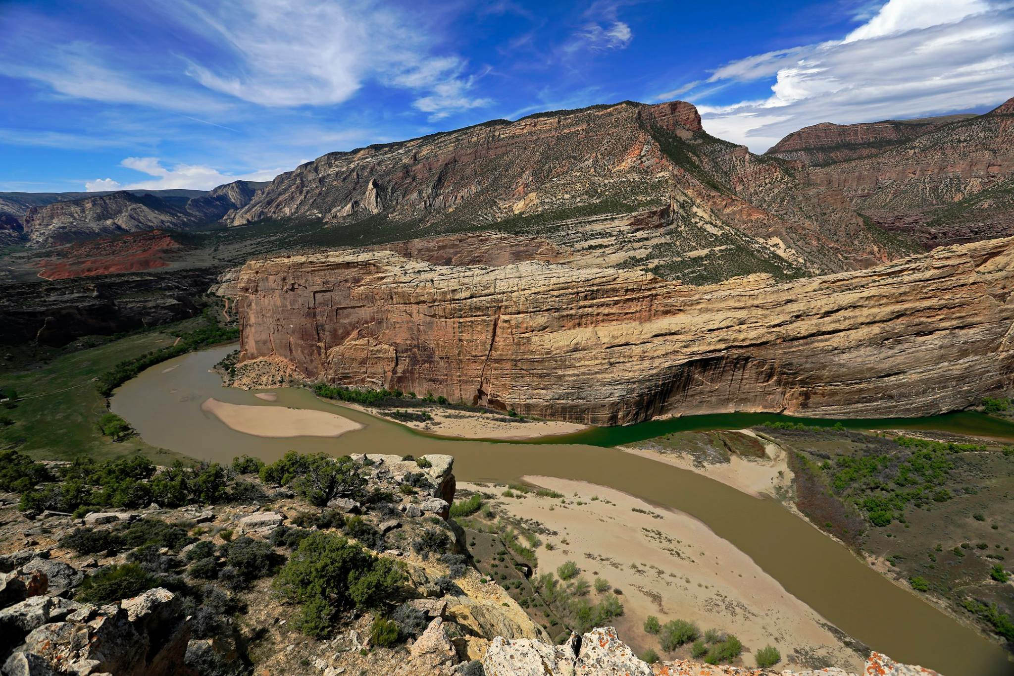 Taken from the top of Jenny Lind Rock, this view shows the confluence of the Green and Yampa rivers at the base of Steamboat Rock in Echo Park. The rocky summit in the background is Harpers Corner.